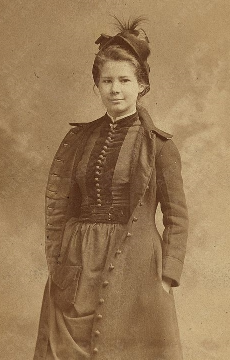 Handwritten note at top of photograph: L.H. King (Cox), art student. "Rockwood; 17 Union Square" in gilt letters beneath image. Studio portrait of Cox wearing a long coat and feathered hat.